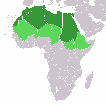 Map: Africa – Northern Africa: dark green: UN subregion Light green: Geographic, including above